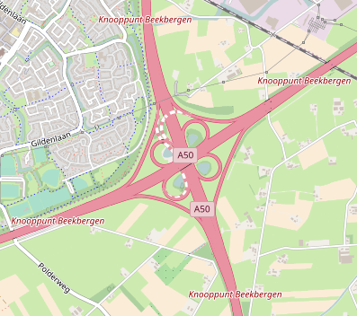 Map of Interchange Knooppunt Beekbergen